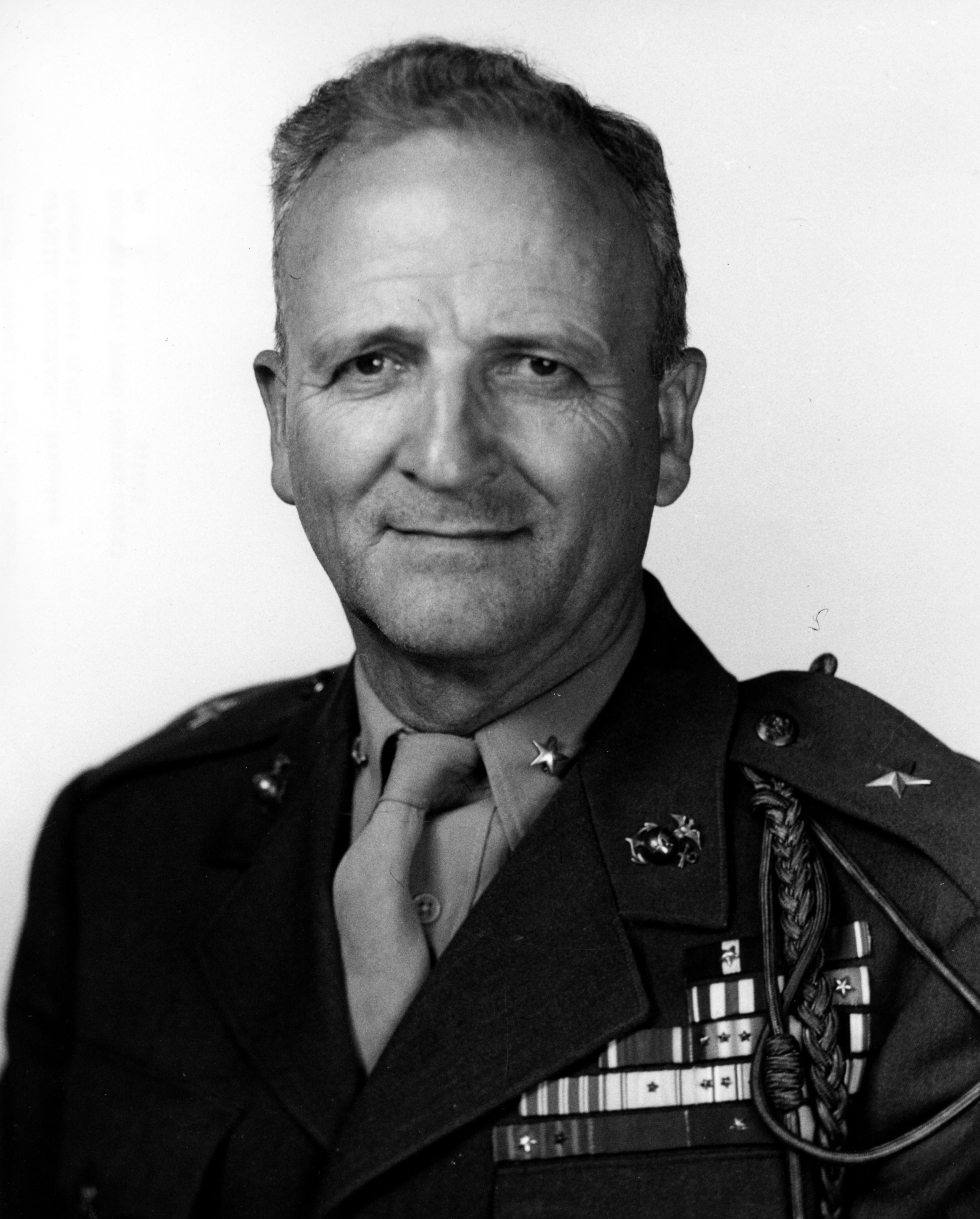 Robert Blake (August 17, 1894 – October 2, 1983) was a highly decorated Major General in the United States Marine Corps during World War II. He was a recipient of the second highest decorations of the Army and Navy, the Distinguished Service Cross and the Navy Cross, both of which he earned during his service in World War I. Blake also received second Navy Cross during Nicaraguan Campaign.